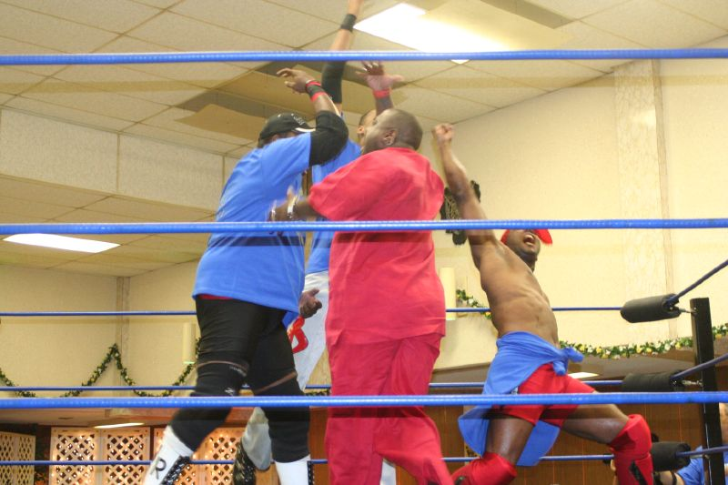 Professional wrestling alliance Da Soul Touchaz at a Chikara event.